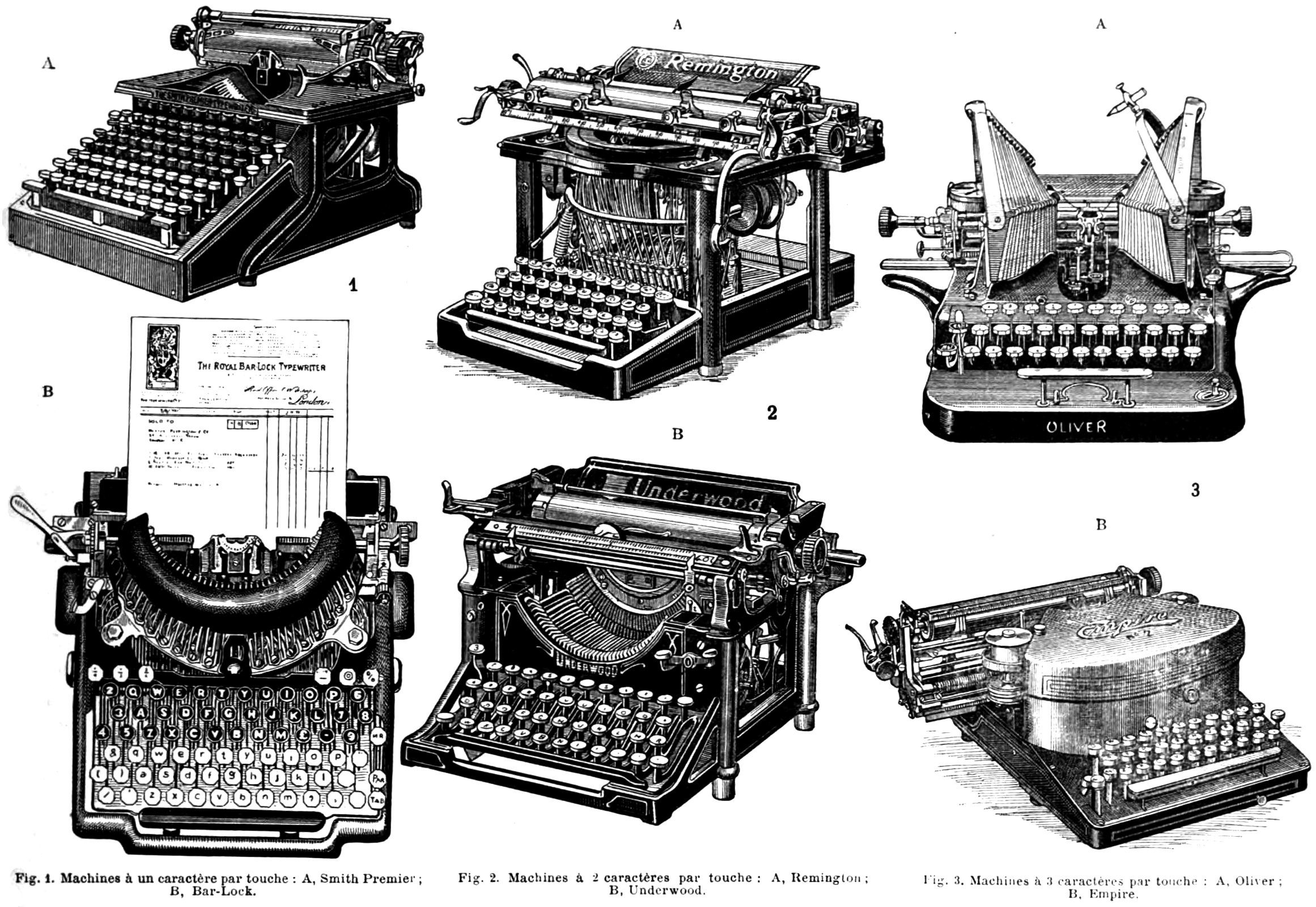 Fig. 1: Machines with one character per key. Fig. 2: Machines with two characters per key. Fig. 3: Machines with three characters per key.